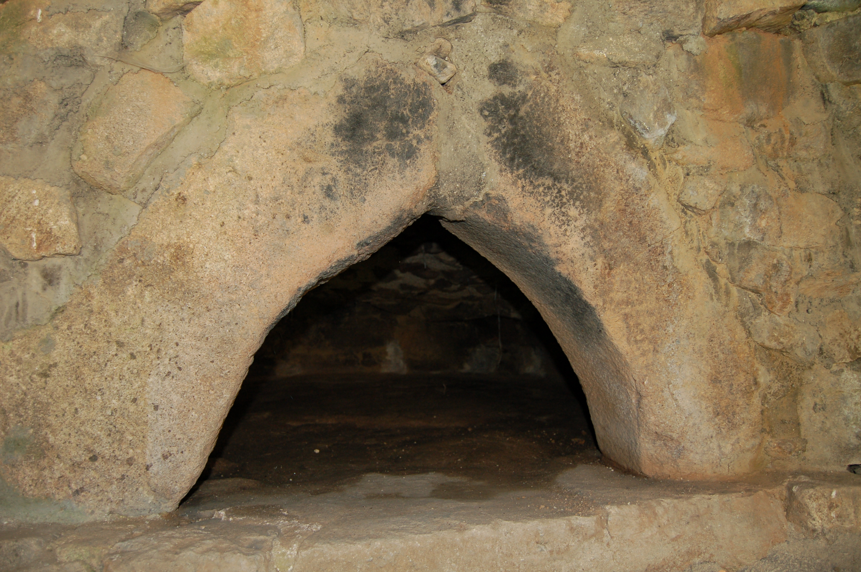 Bread oven - inside